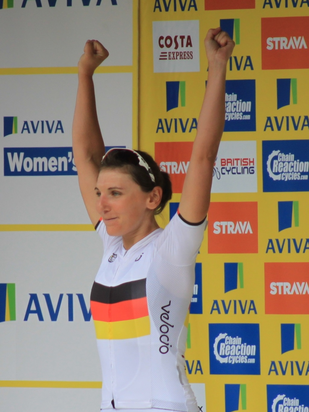 Lisa Brennauer, wearing her German national champion's jersey, takes to the podium to be awarded the yellow jersey for winning The 2015 Women's Tour.